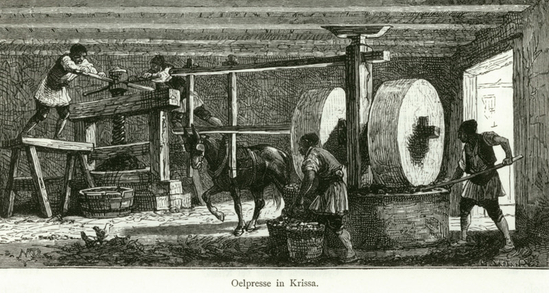 Amand Schweiger von Lerchenfeld. Griechenland in Wort und Bild, Eine Schilderung des hellenischen Konigreiches, Leipzig, Heinrich Schmidt & Carl Günther, 1887